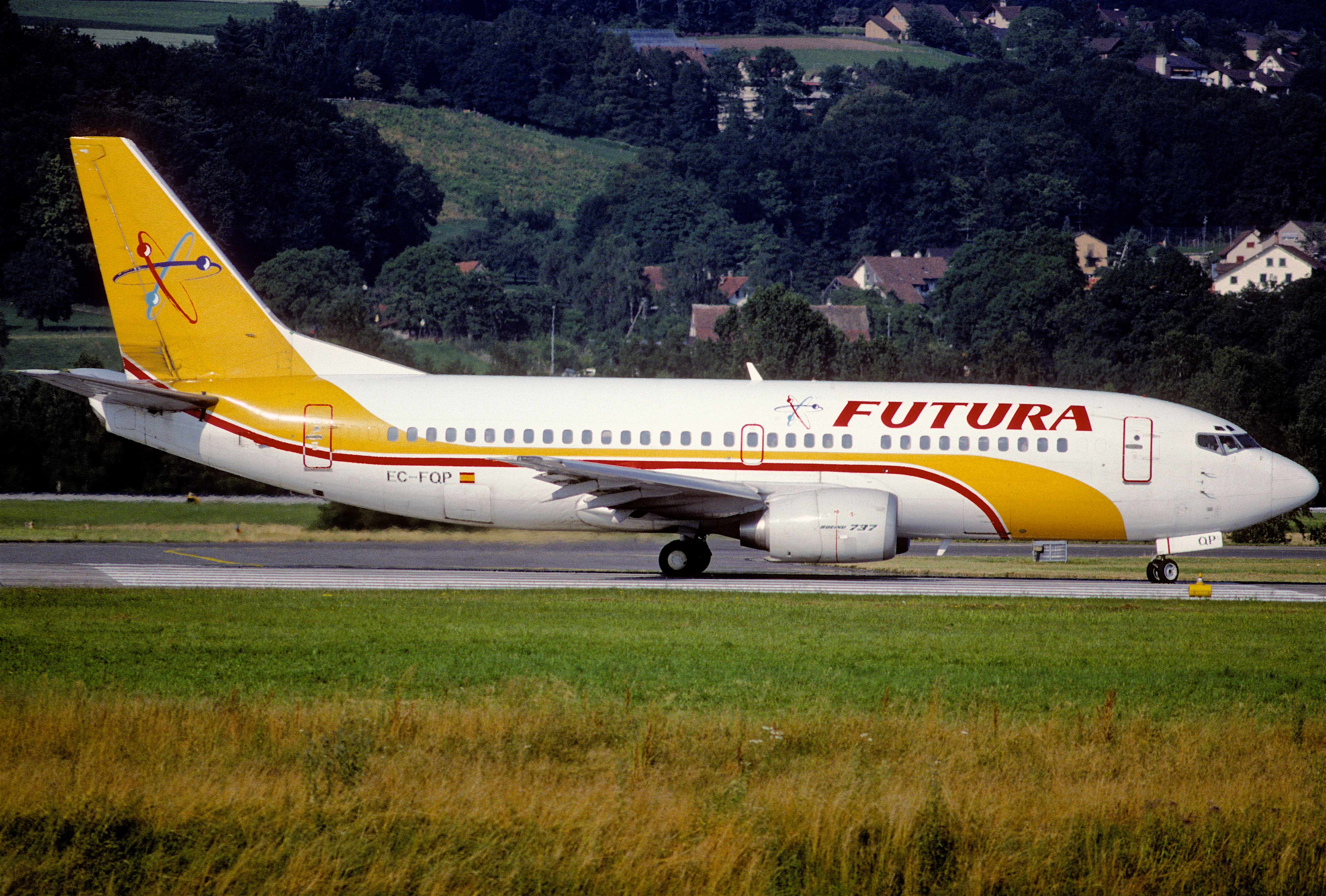 First flight: October 7, 1987... 28/10/1987 Aer Lingus EI-BUD 25/10/1992 Viva Air EC-279 24/02/1993 Viva Air EC-FQP 28/03/1993 Futura International EC-FQP 20/09/1994 L'Aeropostale F-OGSY Converted to freighter QC 25/05/1995 L'Aeropostale F-GIXI 01/01/2001 Europe Airpost F-GIXI